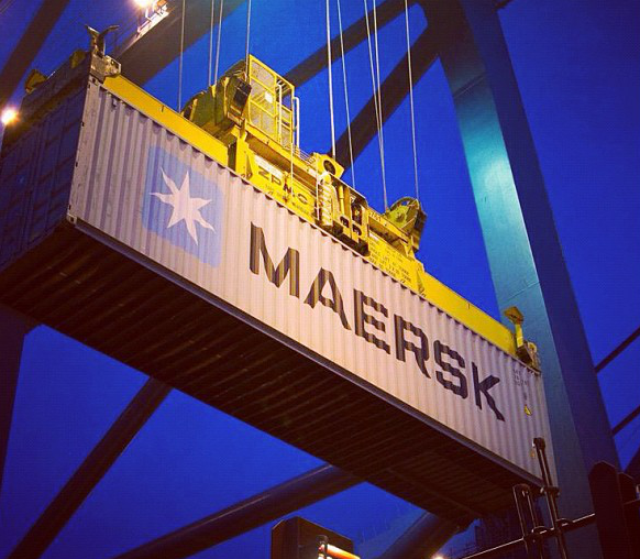 Maersk 40 foot container